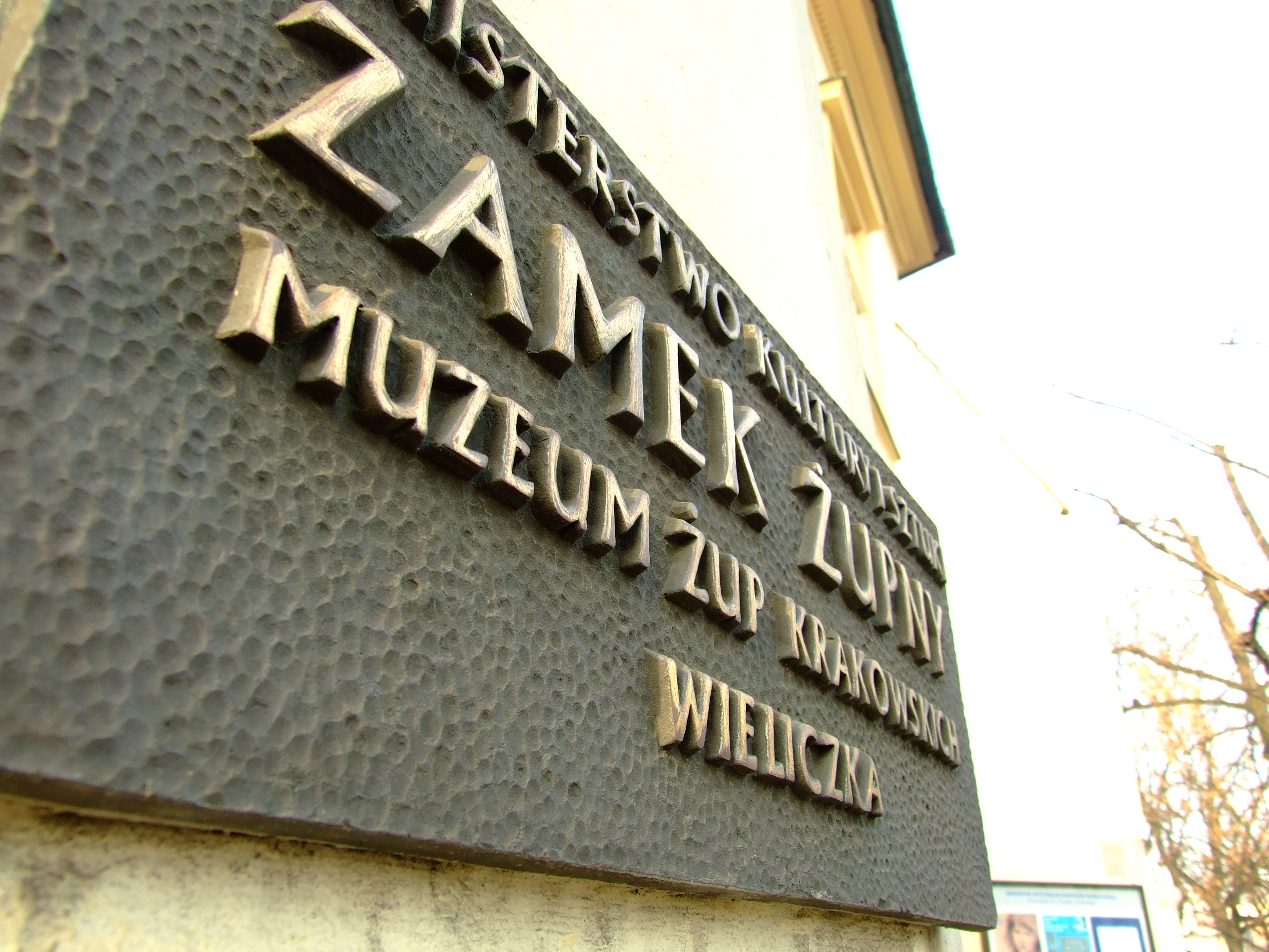 Enterance to the salt works museum in Wieliczka, PLhelp